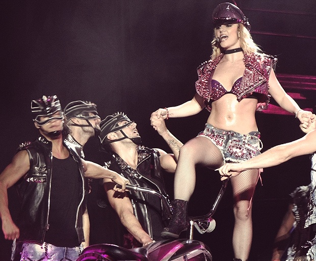 Britney Spears Femme Fatale Tour Live Argentina